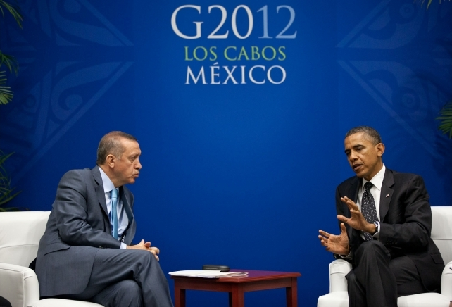 U.S. President Obama talks with Turkish Prime Minister Erdogan during G-20 summit in Los Cabos, Mexico, June 19, 2012.